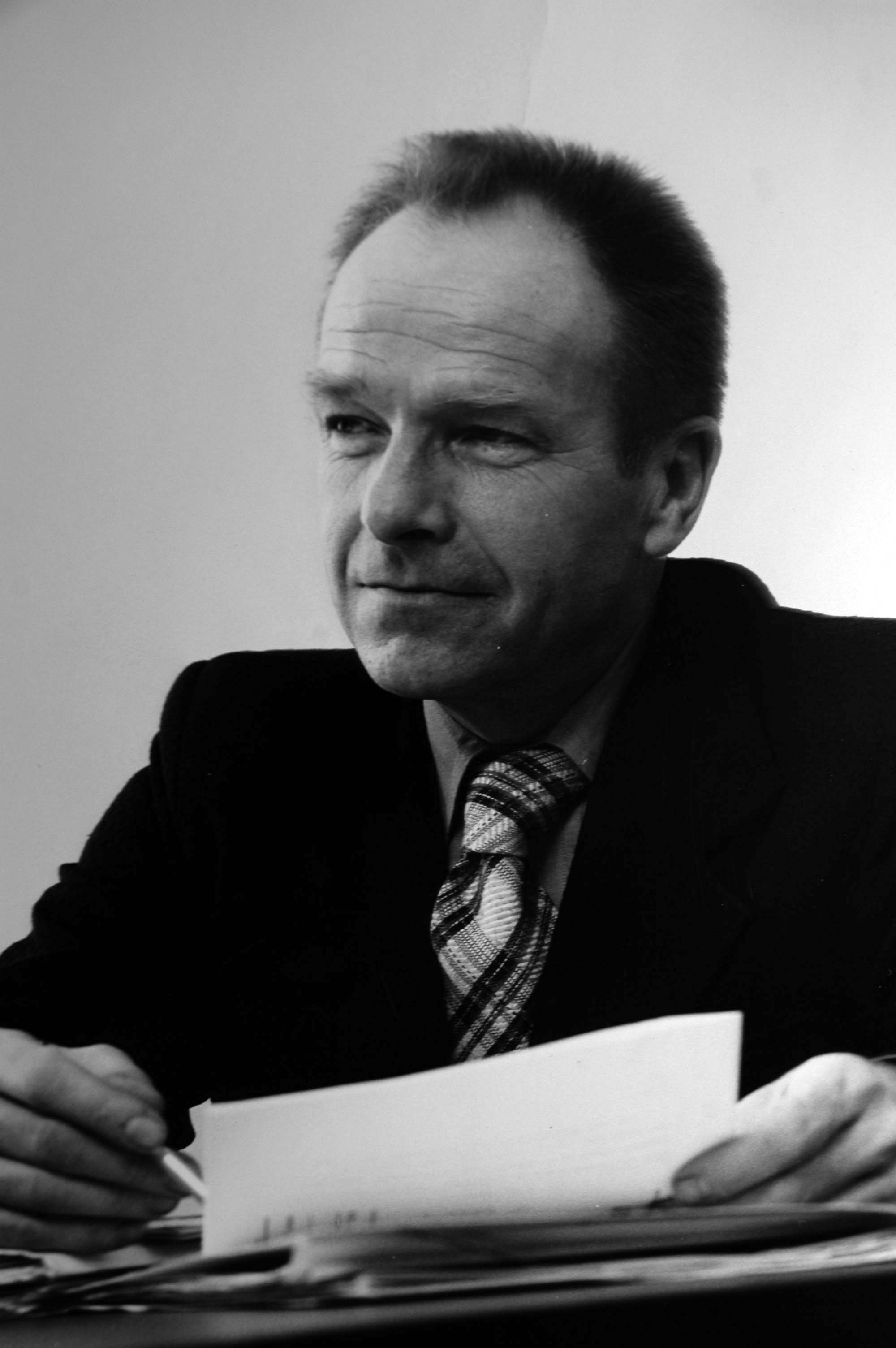 A portrait of Congressman Robert Blackford Duncan (1920-2011) in the 1960s.